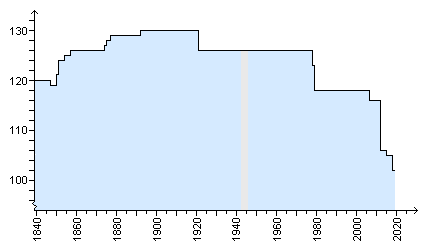 A graph illustrating the number of Communes of Luxembourg changing over time (with 2018 fusions).